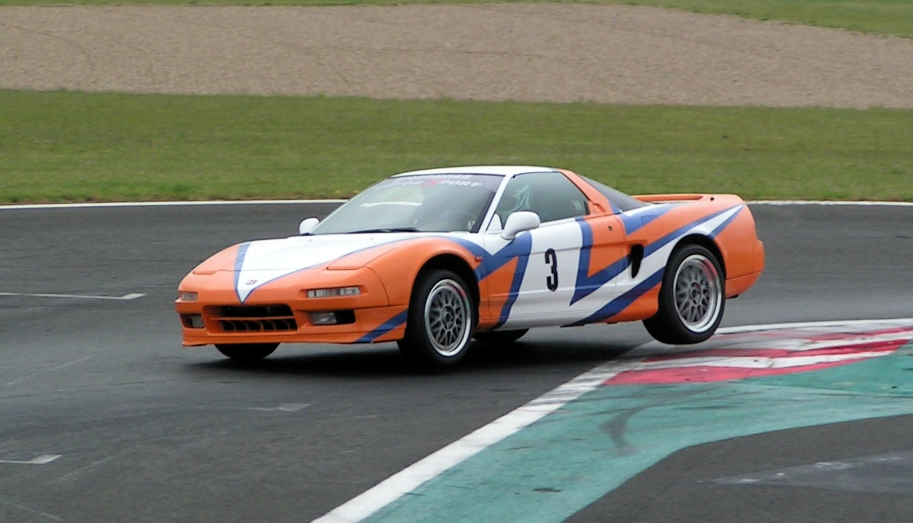 modified Honda NSX at Magny-Cours racetrack, last chicane